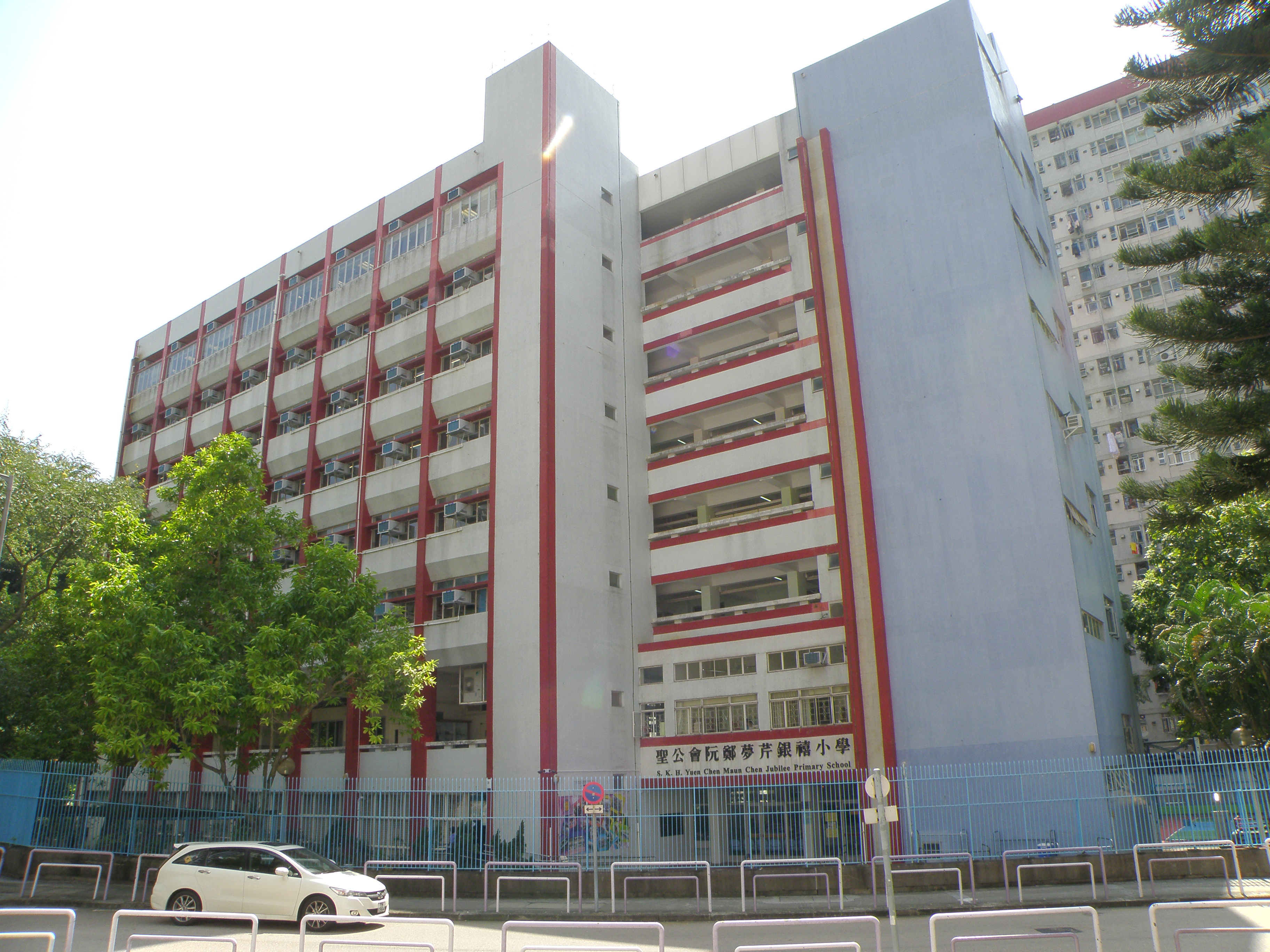 S.K.H. Yuen Chen Maun Chen Jubilee Primary School in Tai Po, Hong Kong.